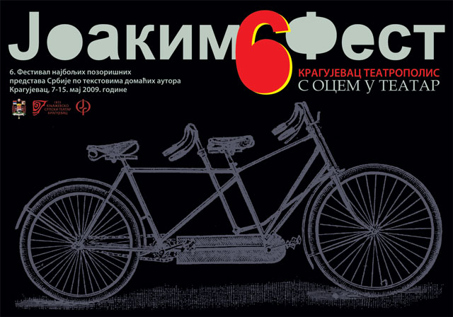 Poster of 6. JoakimFest, Festival of the best theatrical performances of Serbia as per texts by domestic authors, City of Kragujevac